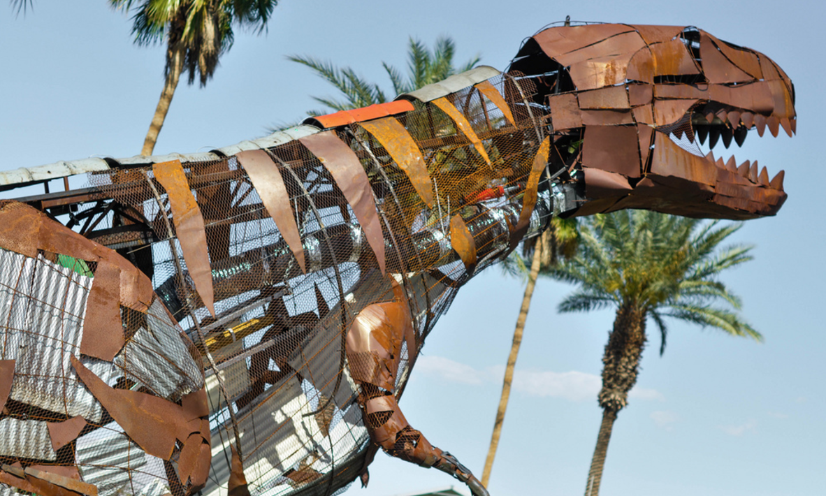 Recyclosaurus Rex hunting for recyclables at Coachella Music & Arts Festival 2013